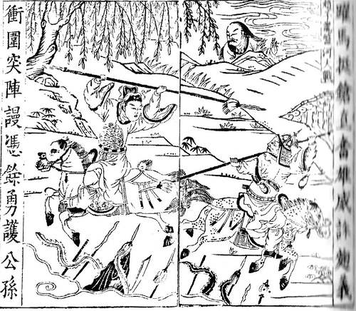 Zhao Yun displays his valor to Gongsun Zan